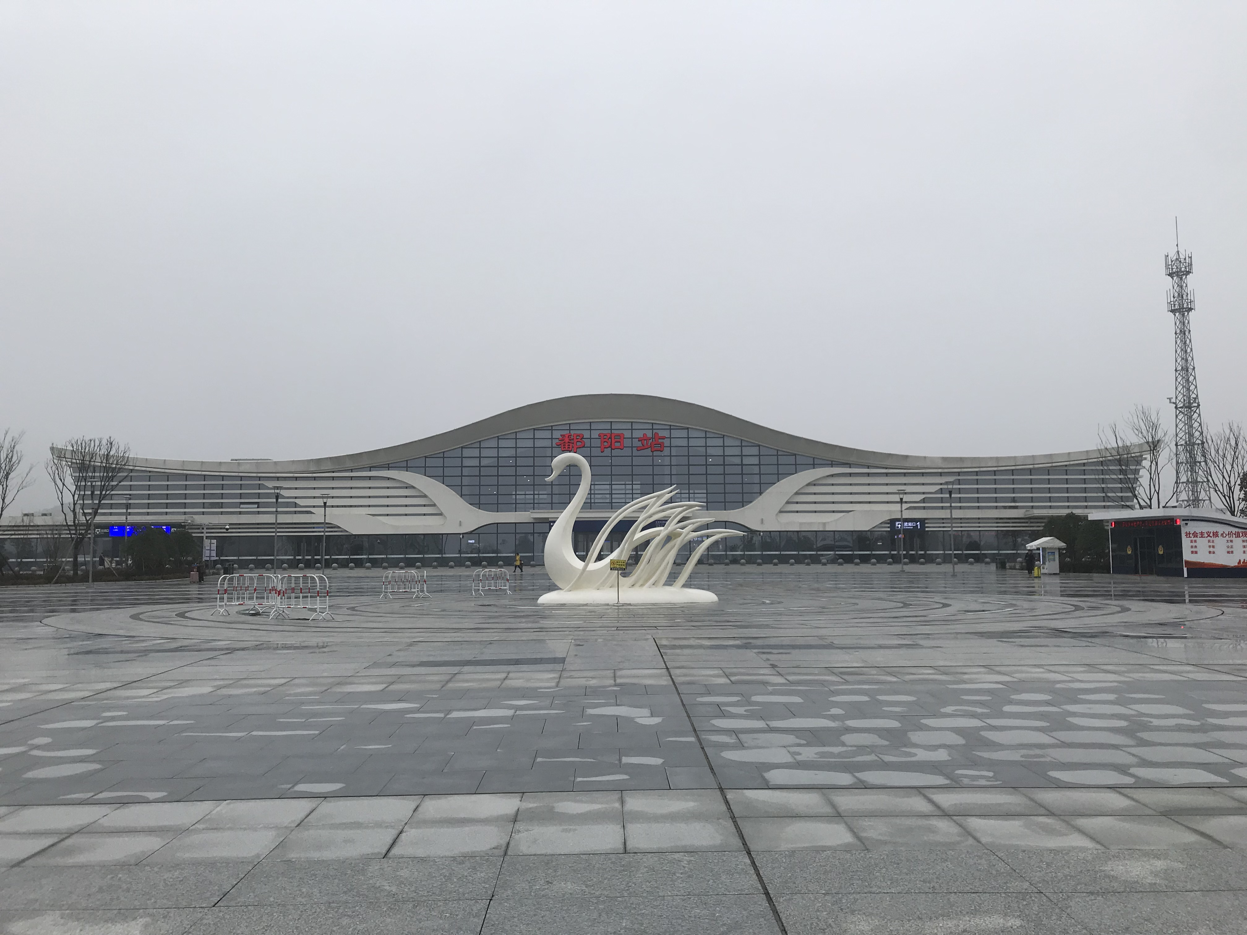 Station Building of Poyang